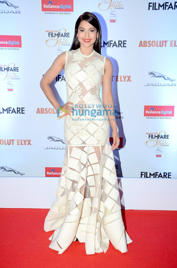 Khan gracing ‘Filmfare Glamour & Style Awards 2016’